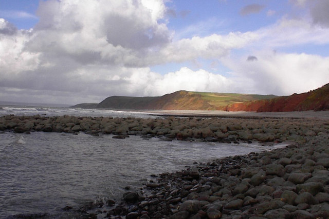 Peppercombe beach looking east to Portledge Beautiful pebble beach at Peppercombe with the red rock of Portledge in the distance